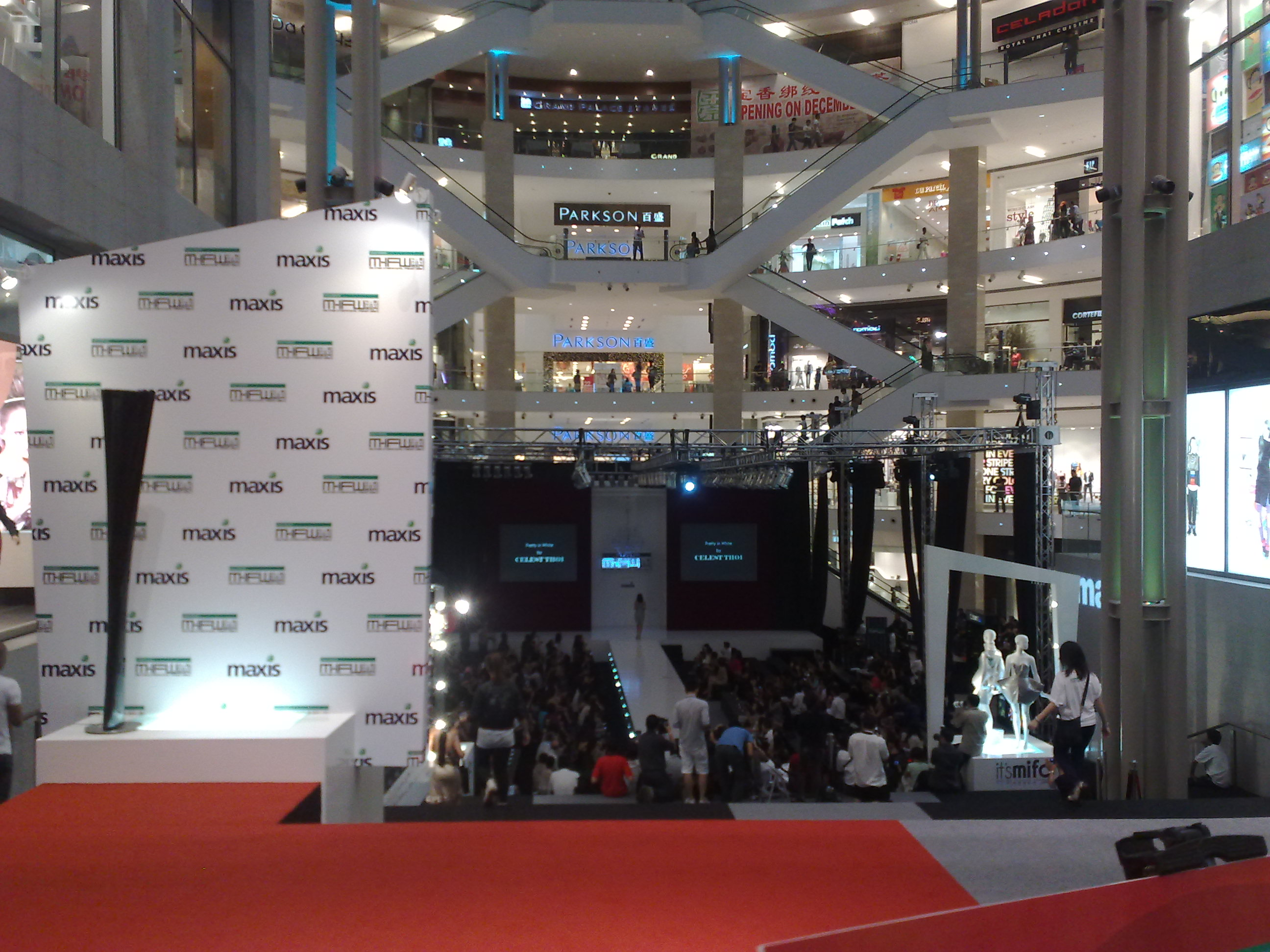 2009 Malaysia International Fashion Week, Pavilion Kuala Lumpur, Bukit Bintang, Kuala Lumpur, Malaysia